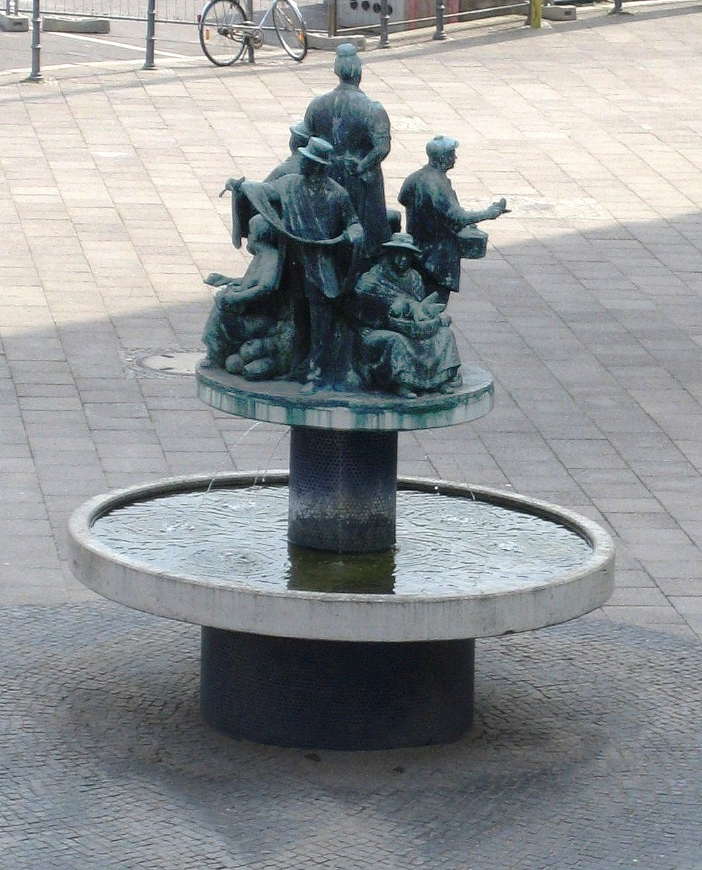 The "Markthallenbrunnen" (market-hall-fountain) in Berlin-Mitte (Germany). Built up in 1973. Design: Gerhard Thieme.